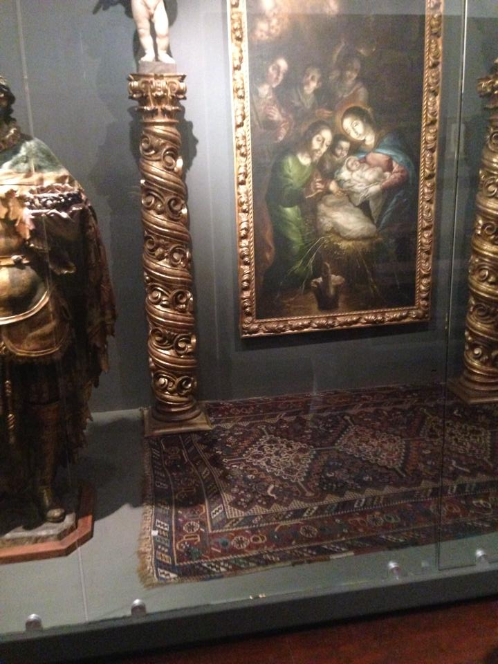 Una de las salas de arte ubicadas en la Casa del Risco, San Ángel , México